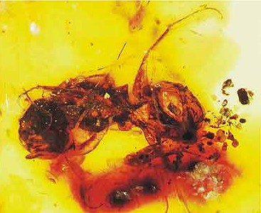 It is the oldest bee found, was discovered in 2006